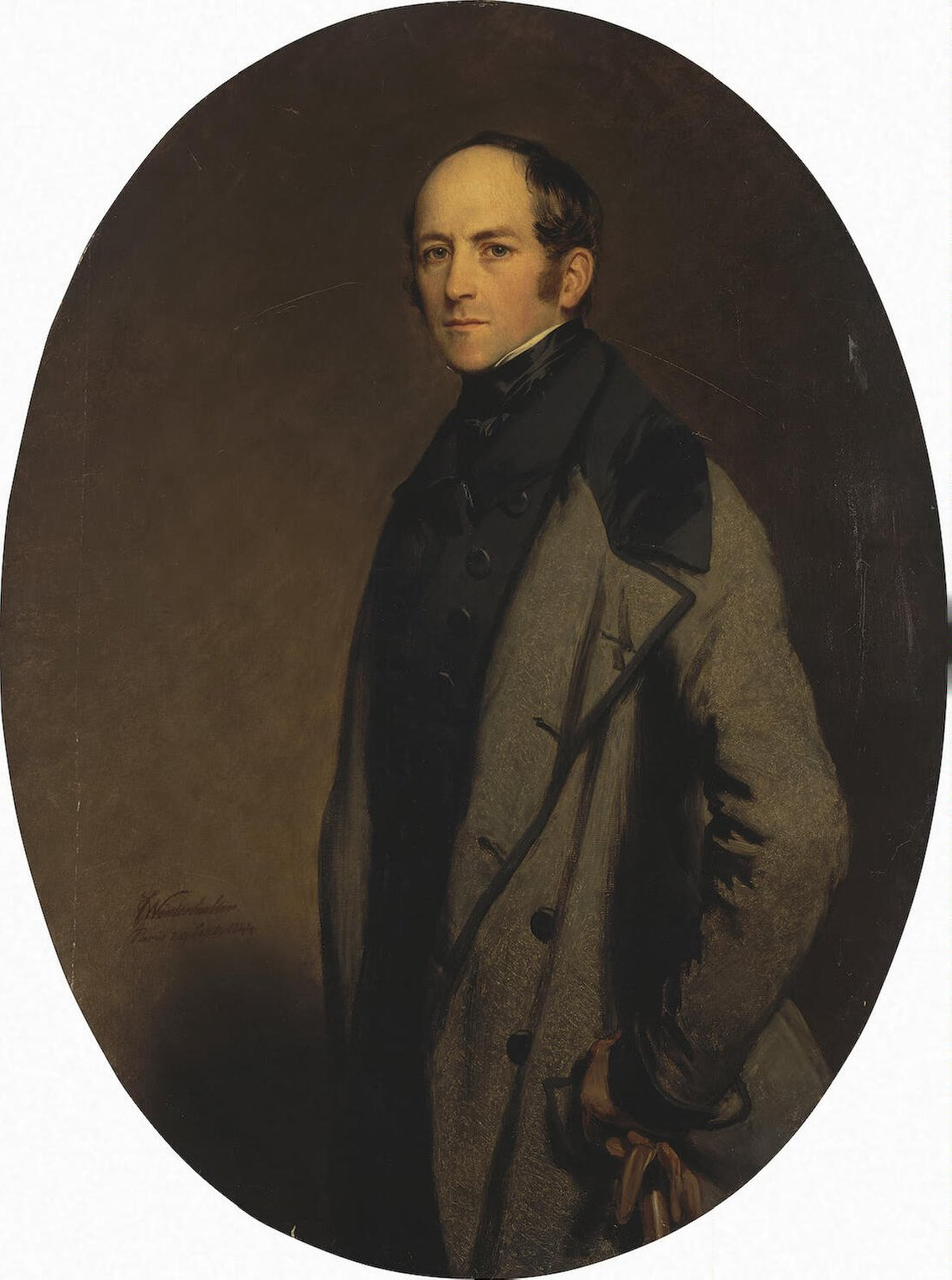 Winterhalter Francois Xavier - Portrait of Count Alexei Bobrinsky (1800-1868)